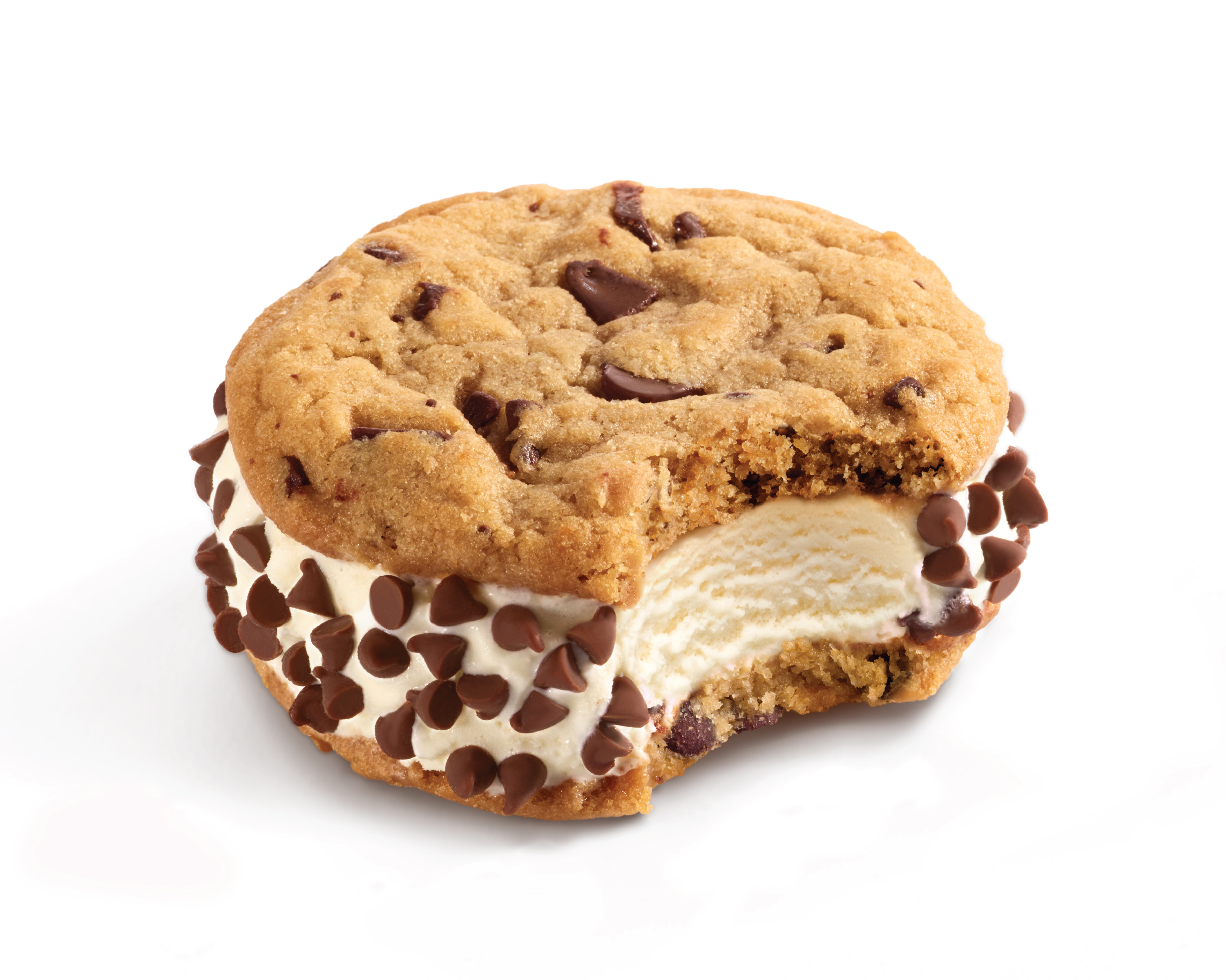 The original Chipwich ice cream sandwich, made with real ice cream and real chocolate chips